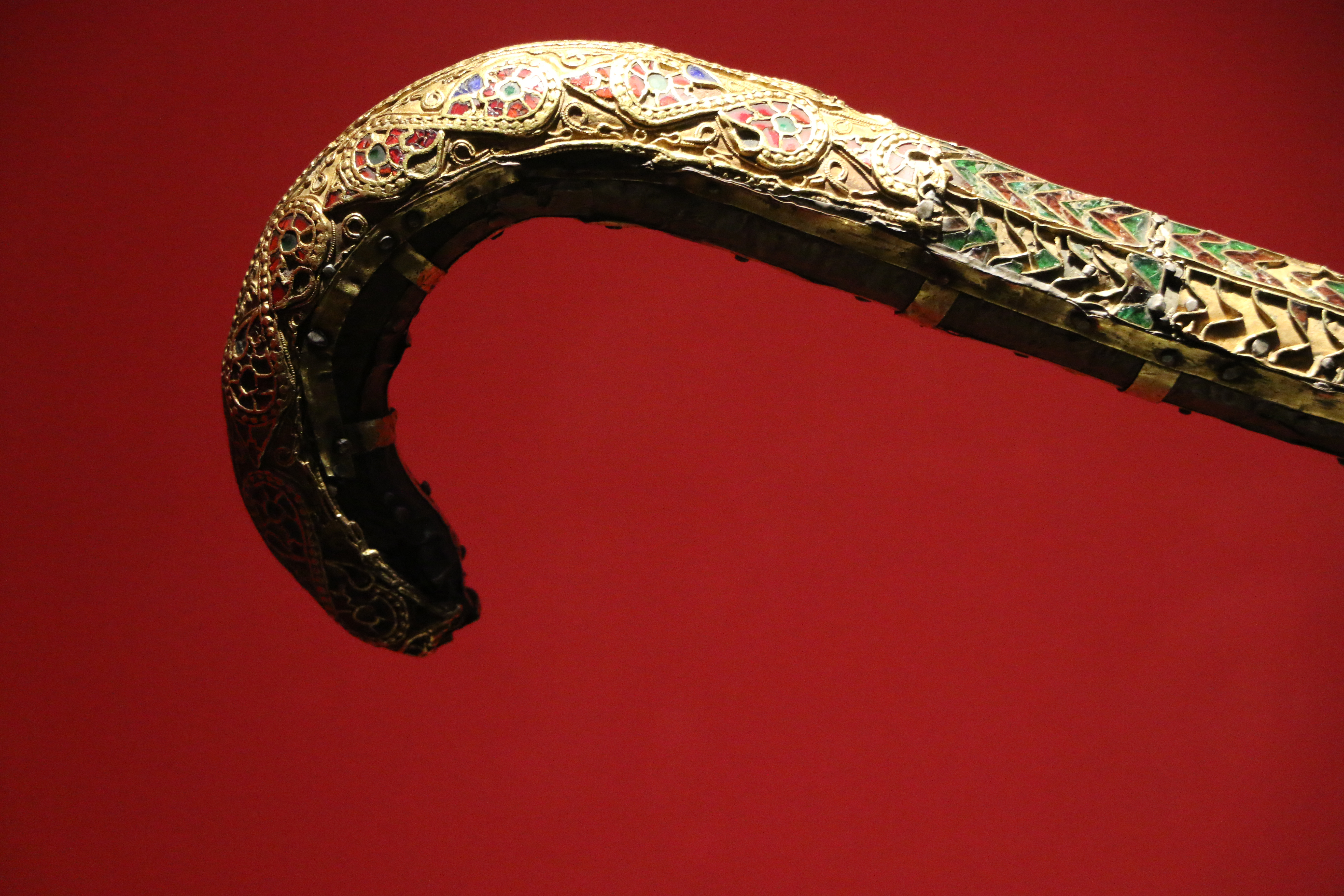 Crosier of Saint Germain of Treves, first abbot of Moutier-Grandval